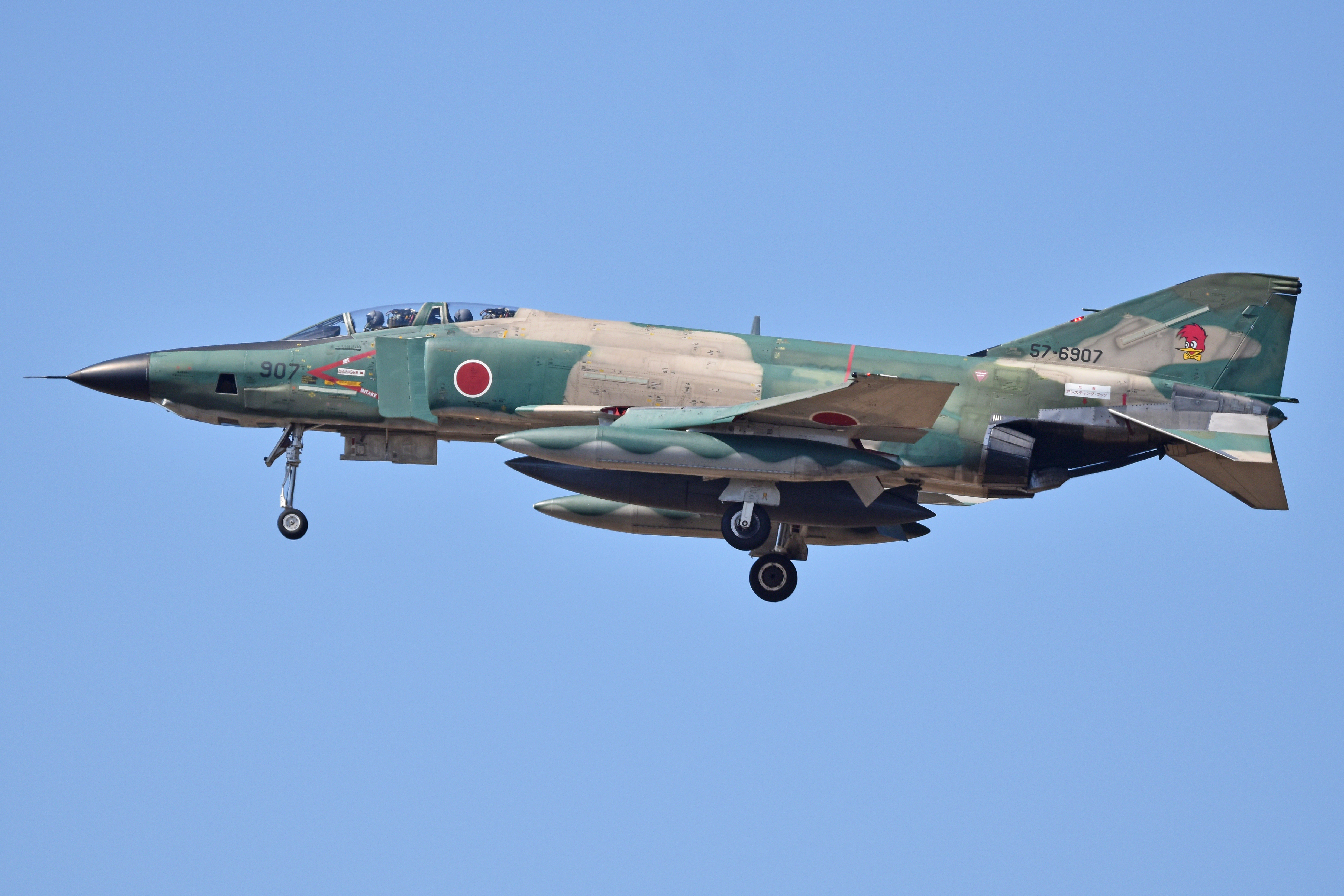 c/n 4603 Built 1975 Operated by 501 Hikotai, Japanese Air Self Defence Force. She is wearing the standard three tone-camouflage which in my opinion one of the best (if not THE best) colour schemes of any Phantom. She is seen on approach to her Hyakuri home. Hyakuri Air Base, Omitama, Ibaraki Prefecture, Japan 18th March 2019